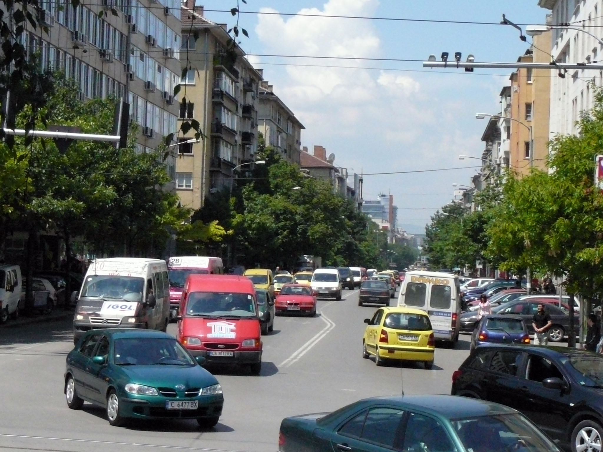 Alexander Stamboliyski Boulevard, Sofia